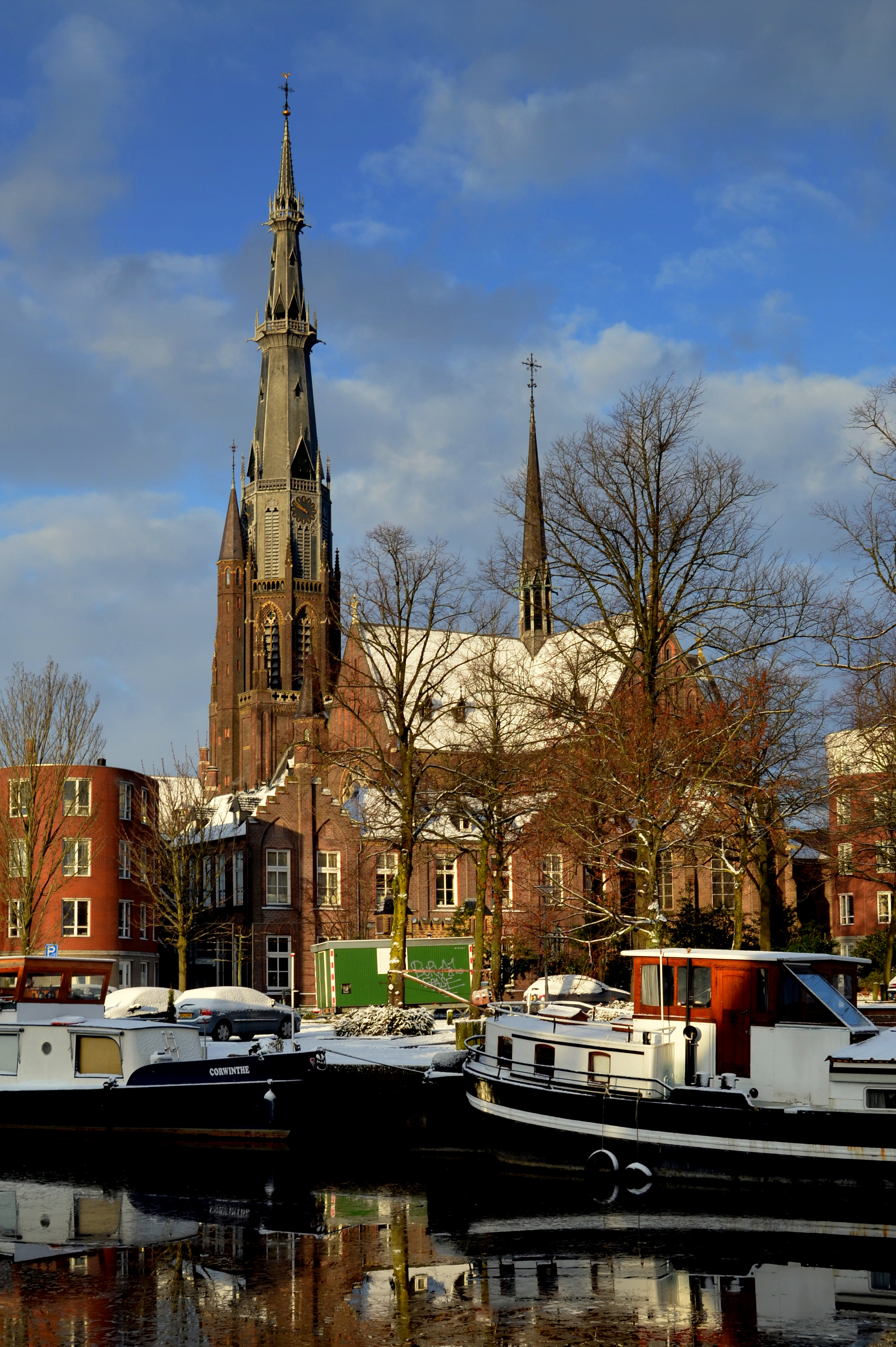 Leeuwarden Bonifatuskerk